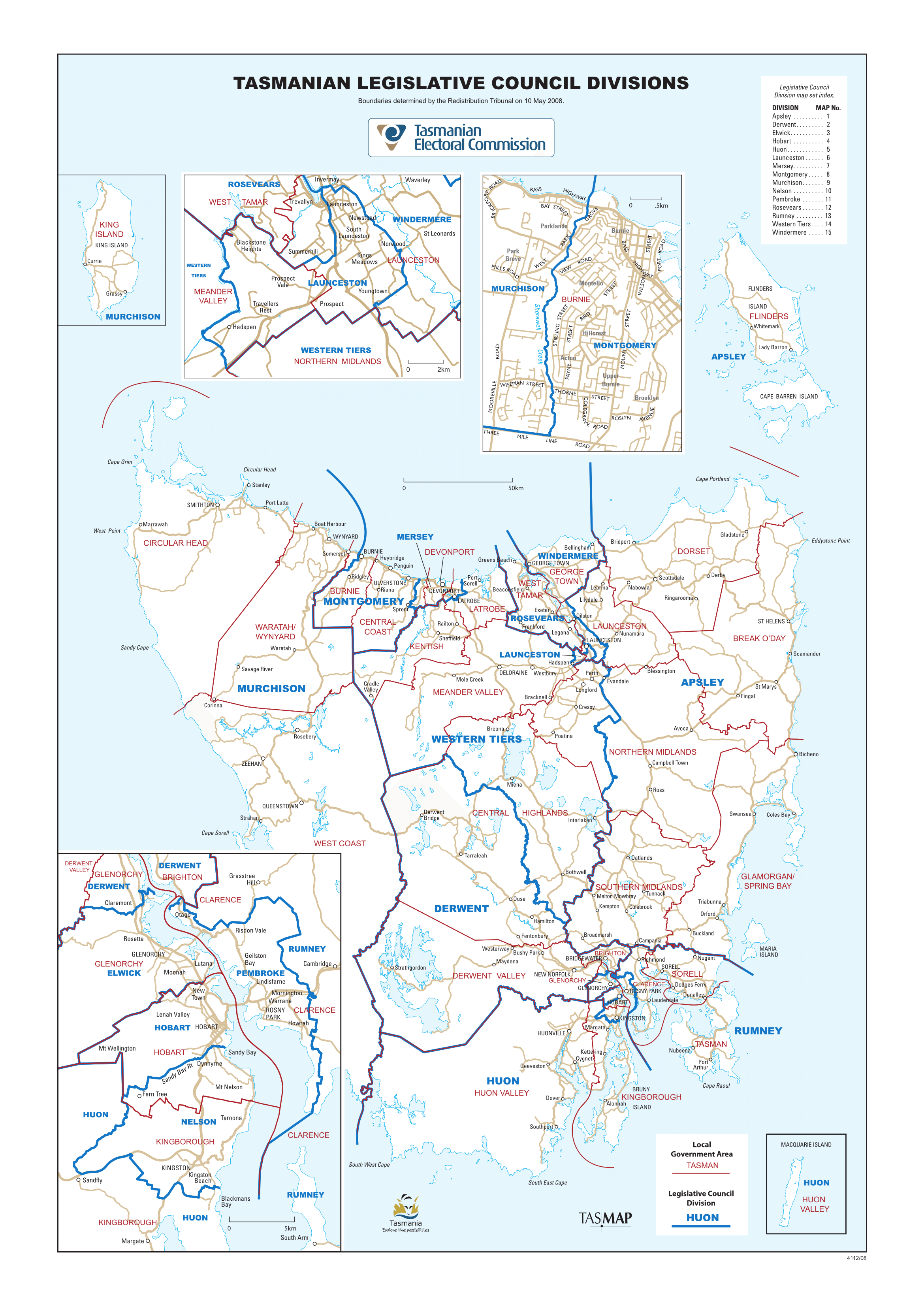 Electorates Map